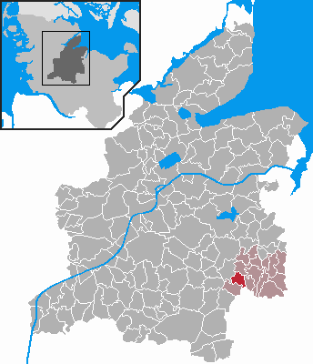 Locator maps of municipalities in Schleswig-Holstein - District Rendsburg-Eckernförde